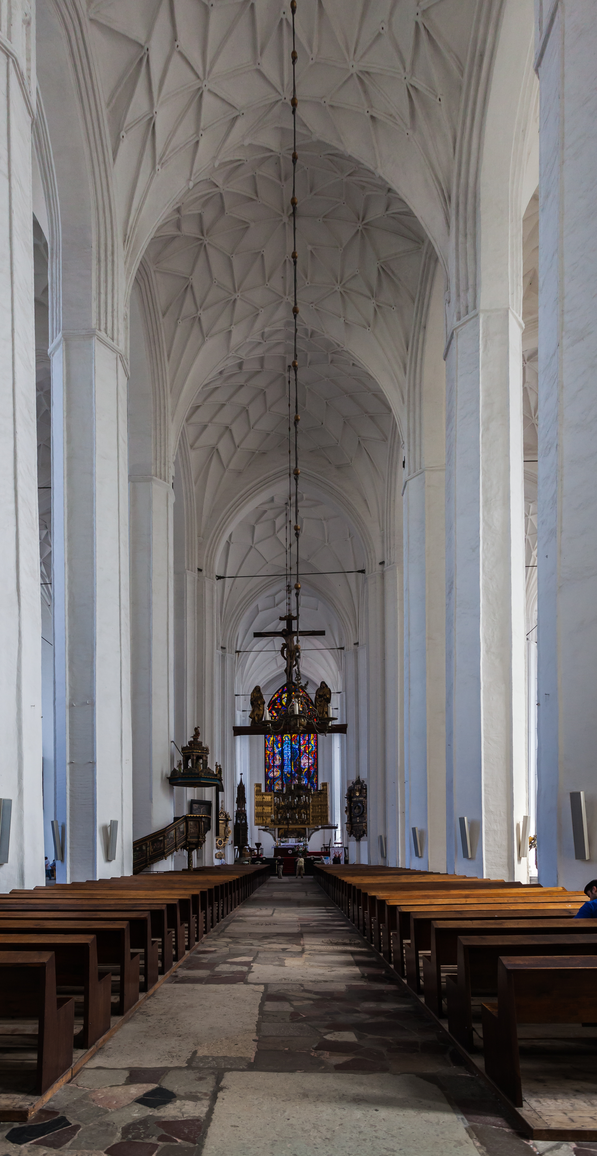 Church of St Mary, Gdansk, Poland